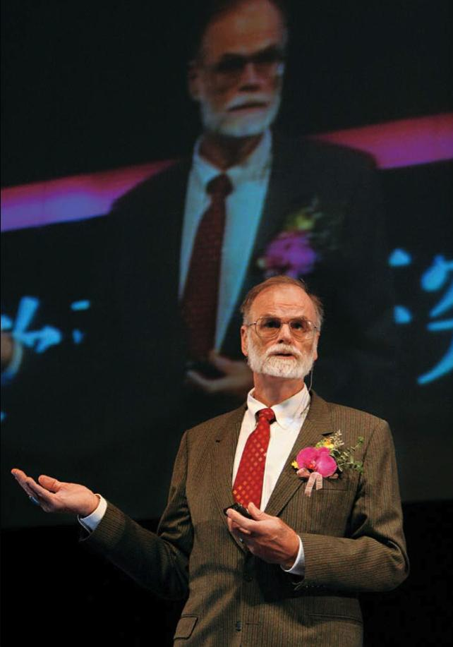 James N. Gray speaking at the Computing in the 21st Century conference in Beijing, October 2006.